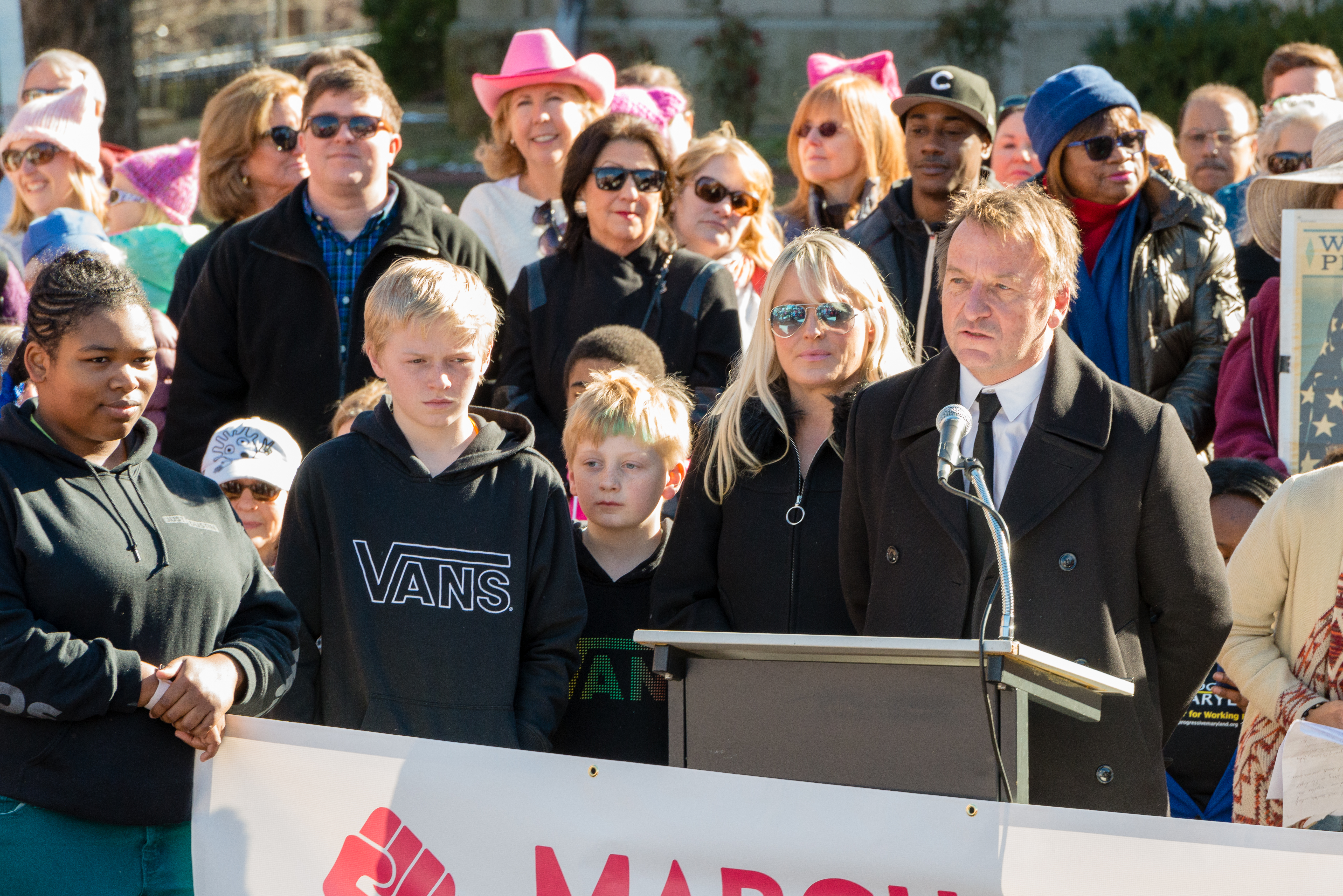 The 2018 Women's March in Annapolis MD was one of many marches around the world. It took place on Bladen St near the Maryland State House